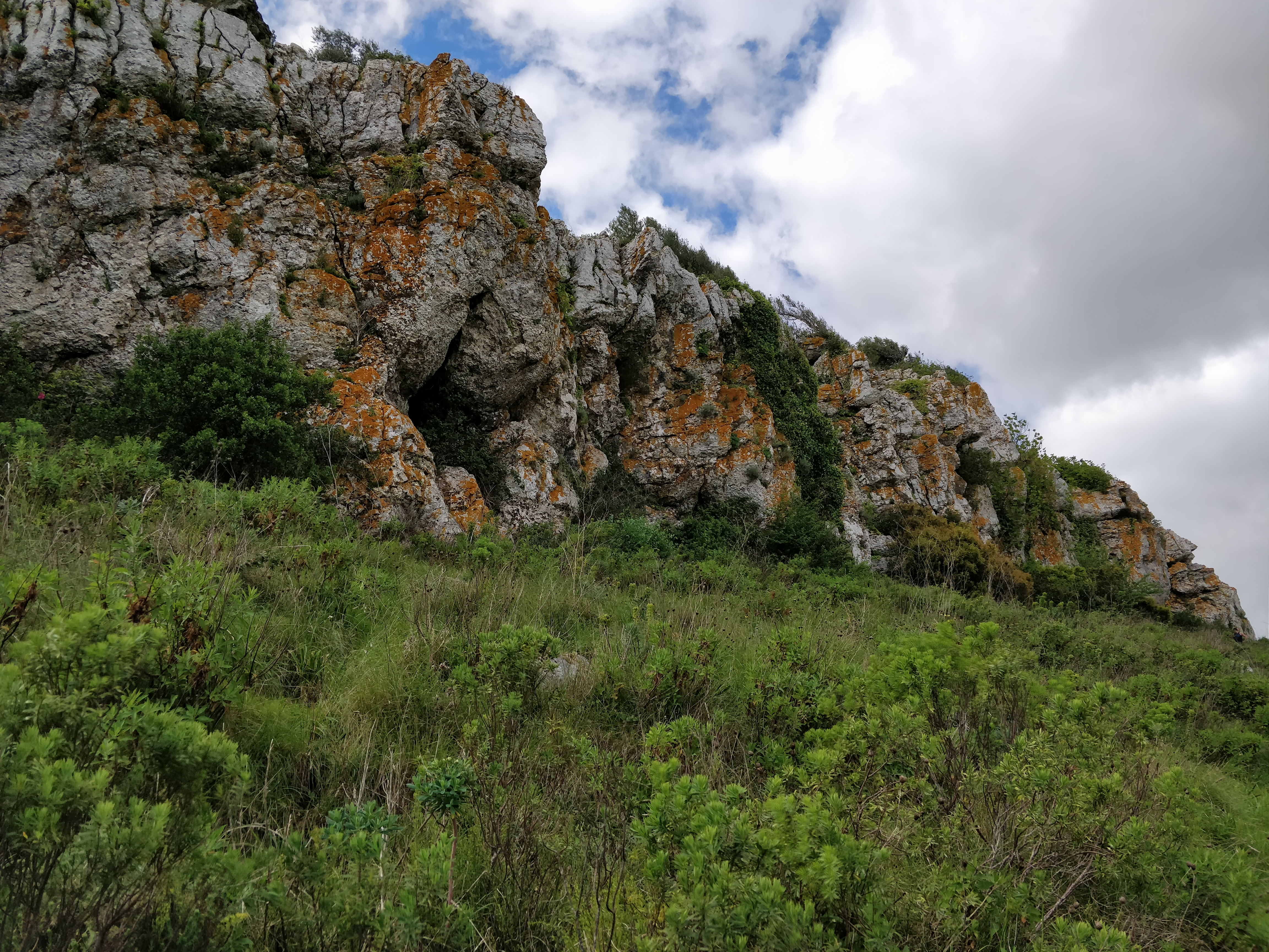 Rock outcrop near Loures, Portugal. The Cave of Pego do Diabo is in this karst outcrop.